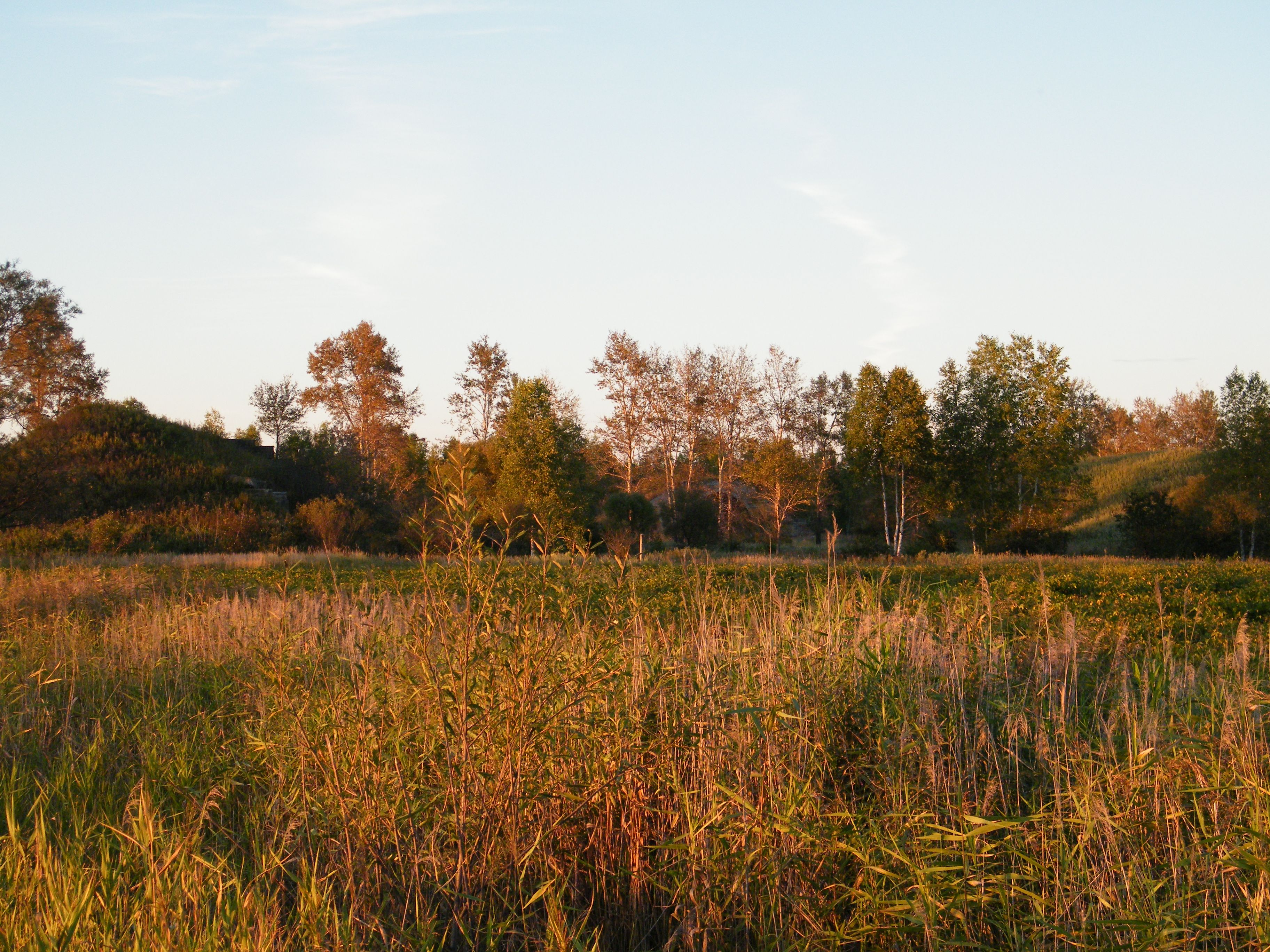 Khabarovsk Krai